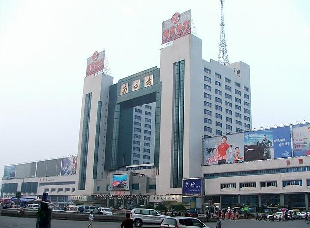 Nanchang Railway Station 南昌站